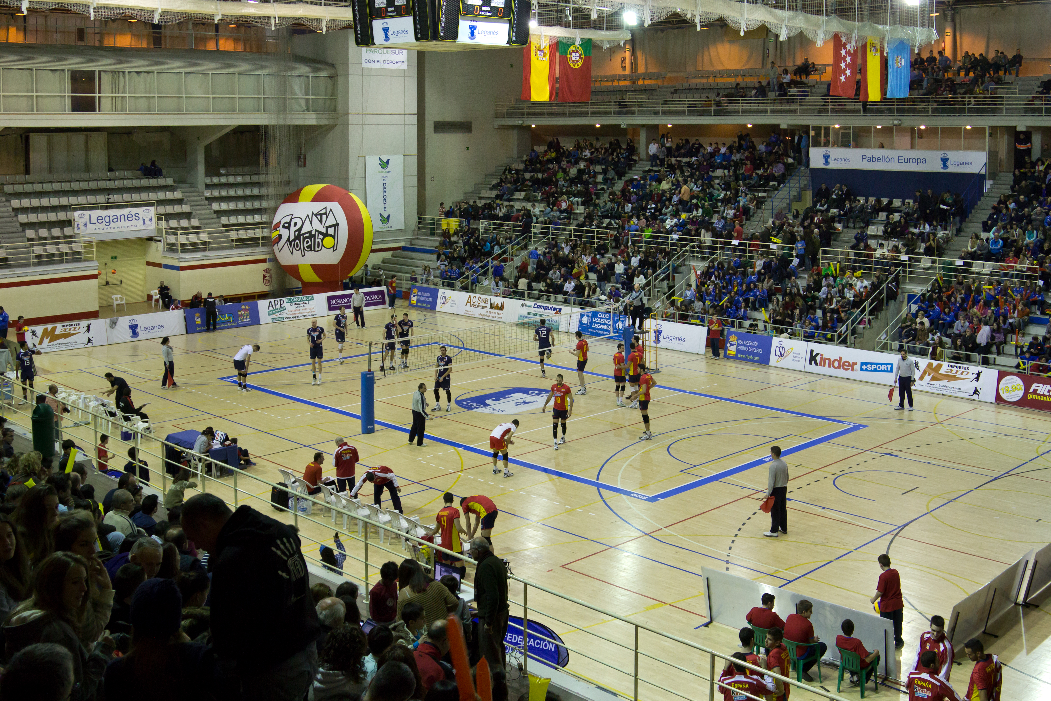 Volleyball game between Spain and Portugal at Europa Arena in Leganés, Spain.